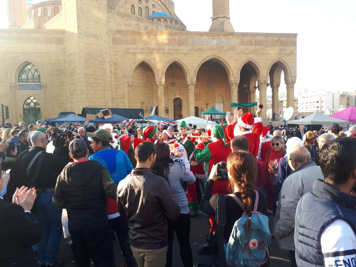 Martyr place Beirut, Protests in Lebanon December 2019